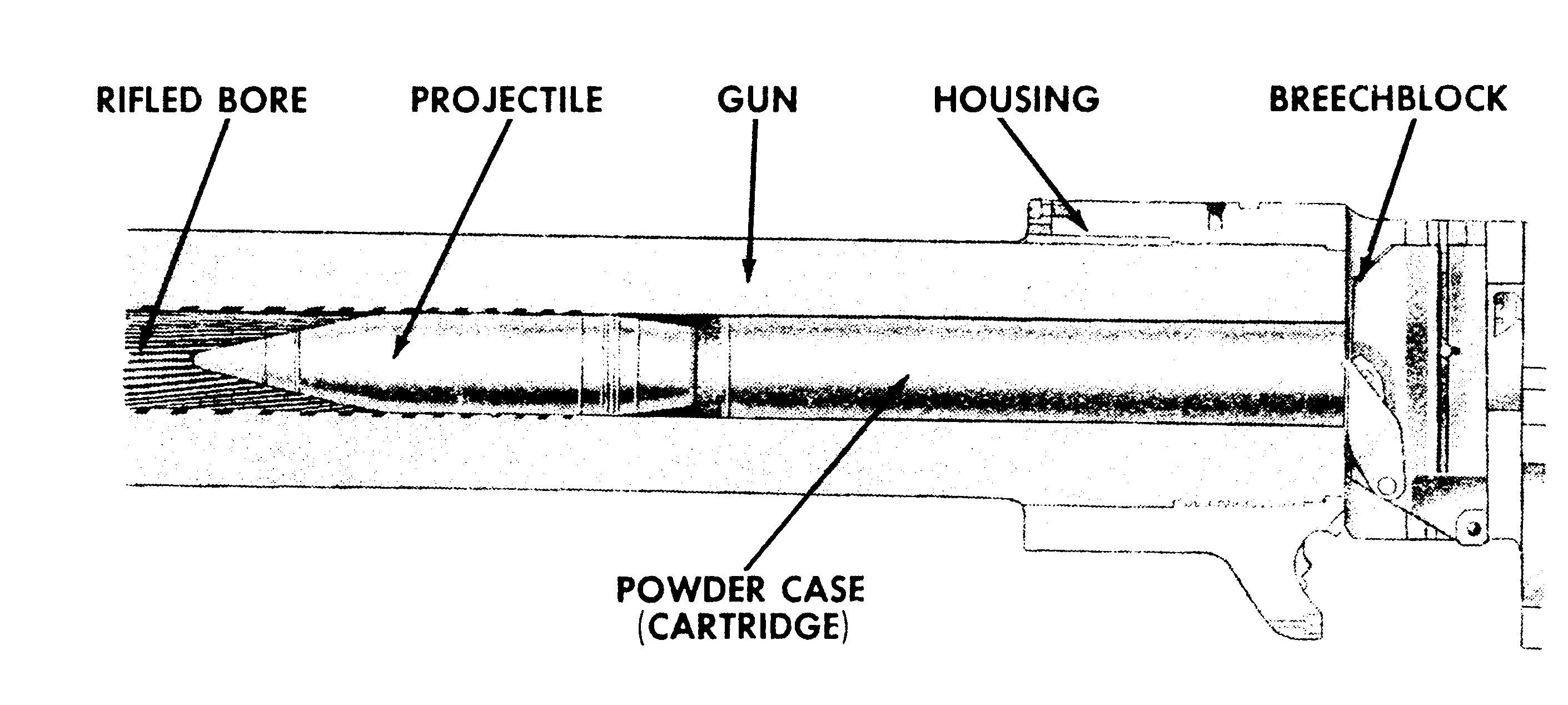 Example of loaded Semi-fixed ammunition. Cropped portion of image scanned from source.